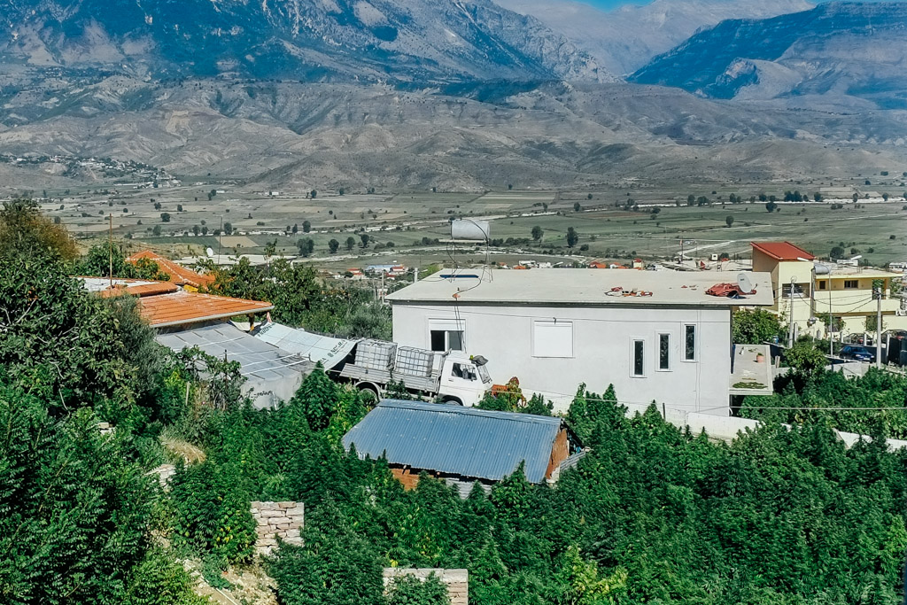 Lazarat overview